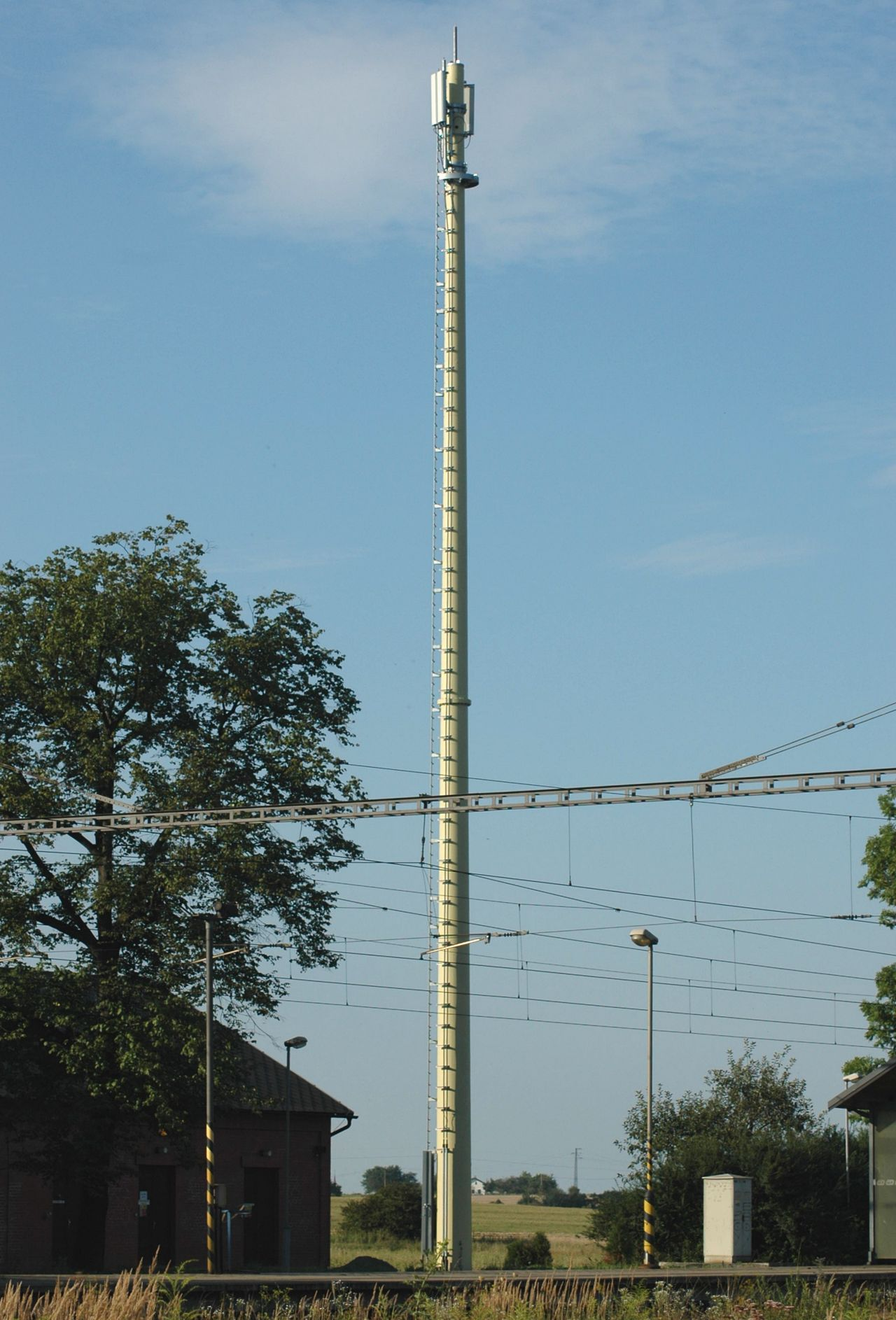 GSM-R Base Transceiver Station, Jistebník railway station, Czech Republic